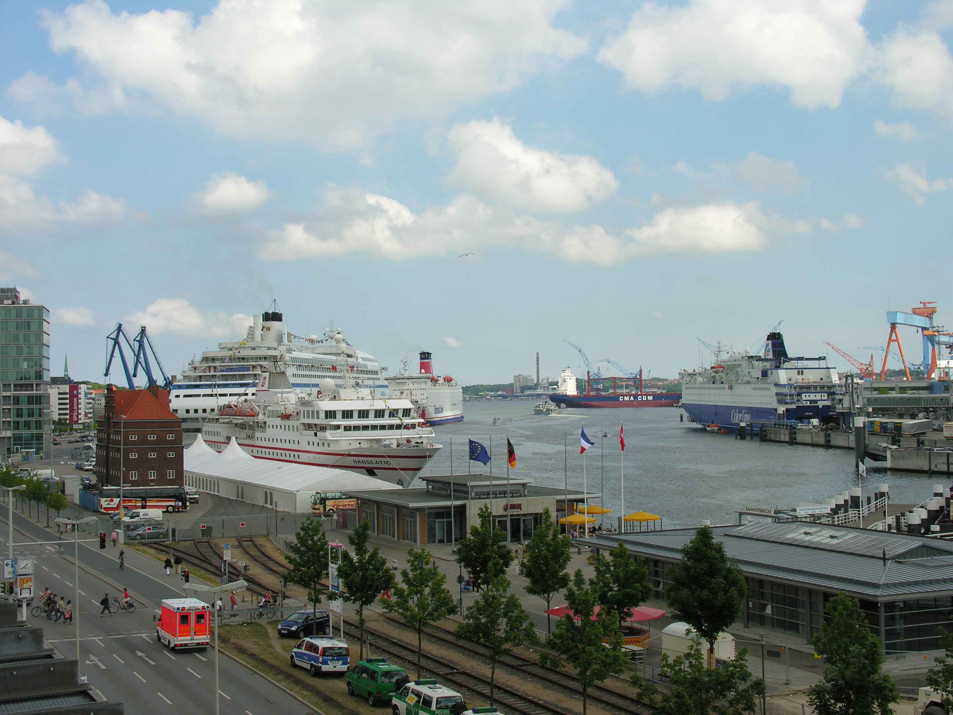 Picture of Kiel taken August 4th 2006.